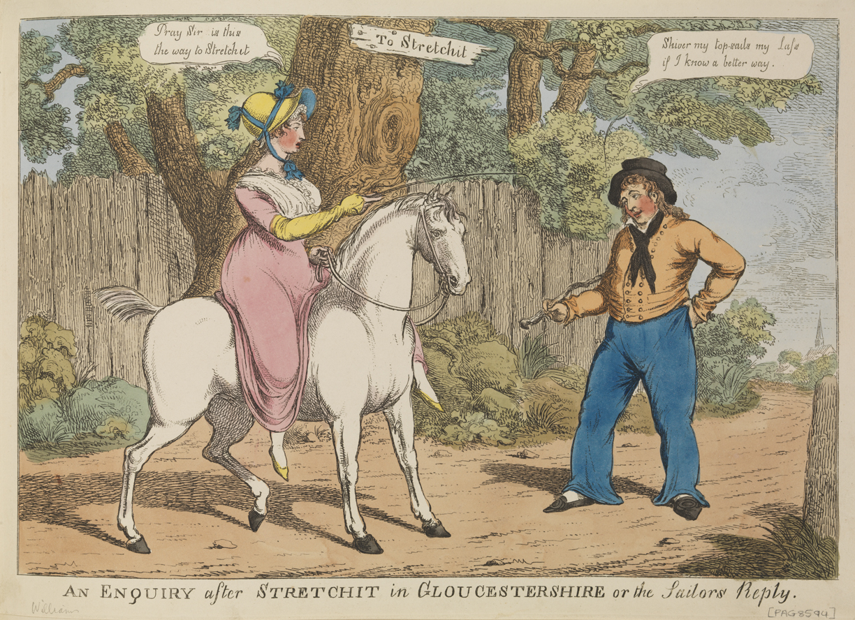 "An Enquiry after Stretchit in Gloucestershire, or the Sailor's Reply", an innuendo-laden English caricature of ca. the first decade of the nineteenth century, which comments on a few young women who were daring enough to ride horses astride, rather than sidesaddle (as was considered appropriate for females during the 16th through 19th centuries). Part of the intended humor is supposed to come from the encounter between the genteel (though boldly daring or "fast") young lady and the salty British tar. Dialogue and text in image: Young lady "Pray, Sir, is this the way to Stretchit?" Signboard caption To Stretchit ☞ Sailor (in stereotypical bell-bottoms) "Shiver my top-sails, my Lass, if I know a better way." (Note that the signboard is roughly shaped to resemble a hand with a pointing finger, the common directional indicator at the time — see Image:The overthrow of dr. slop.jpg for a more elaborate version — while equivalent modern signage would include an abstract arrow symbol instead.) The main joke was that it was not expected or approved behavior at the time for women to have their legs widely spread apart in public for any reason. (In other words, the sailor is commenting on her manner of riding, rather than the direction she is going; and the pun on the place name "Stretchit" with "to stretch it", implying that riding in such a way would stretch the woman's vagina.)